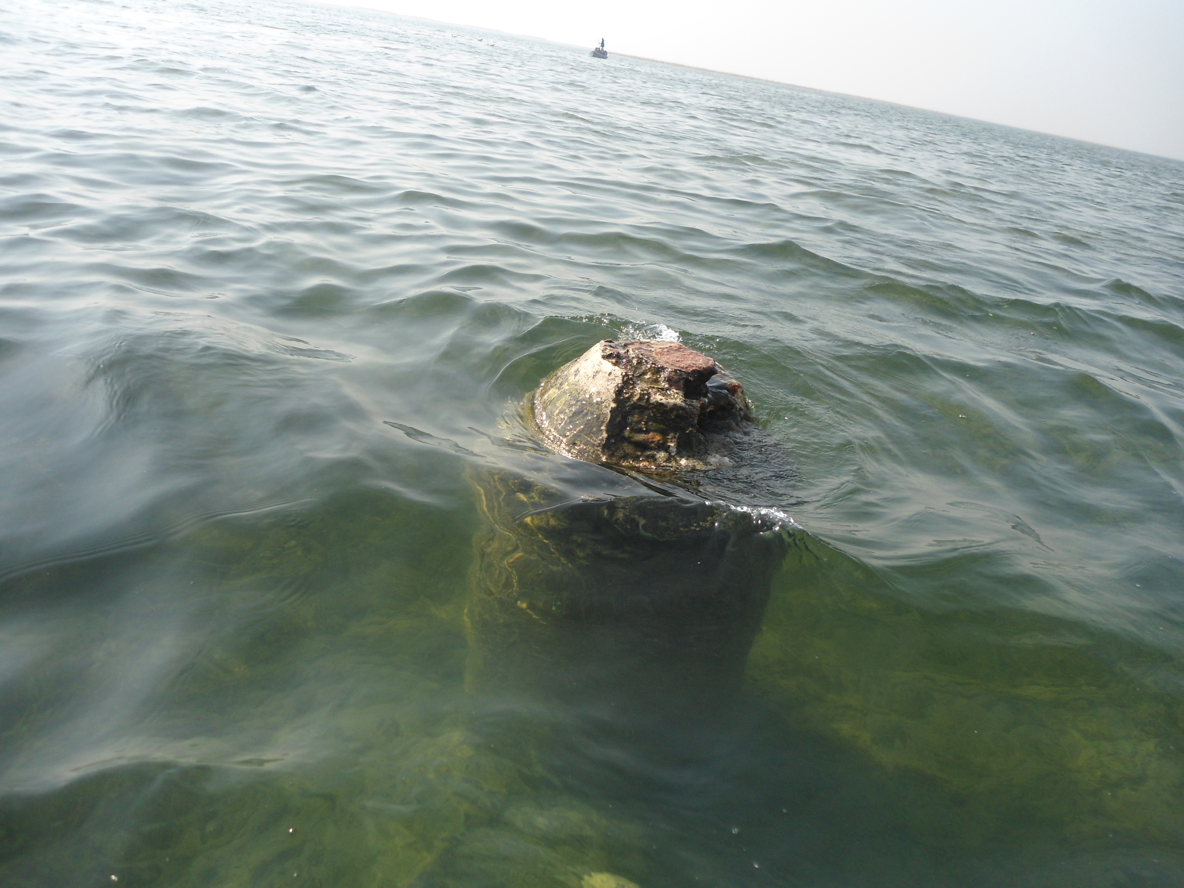 "Nal-damyanti" is a tomb of the emperor "Nala" and her love "Damyanti", stuated at middle of nalsarovar